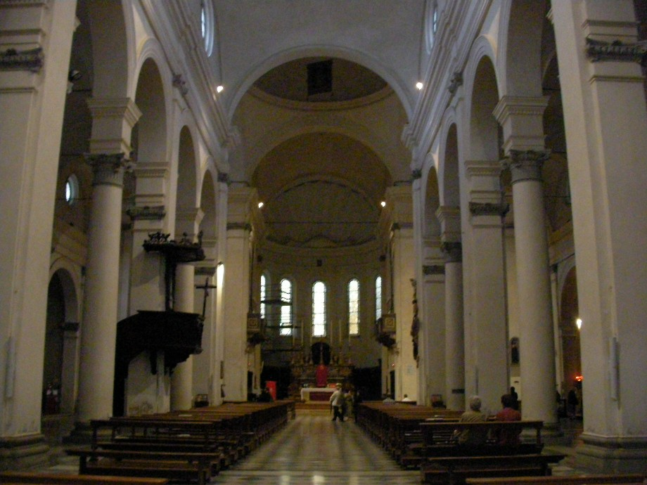 The inside of the cathedral of St. Pietro to Faenza.